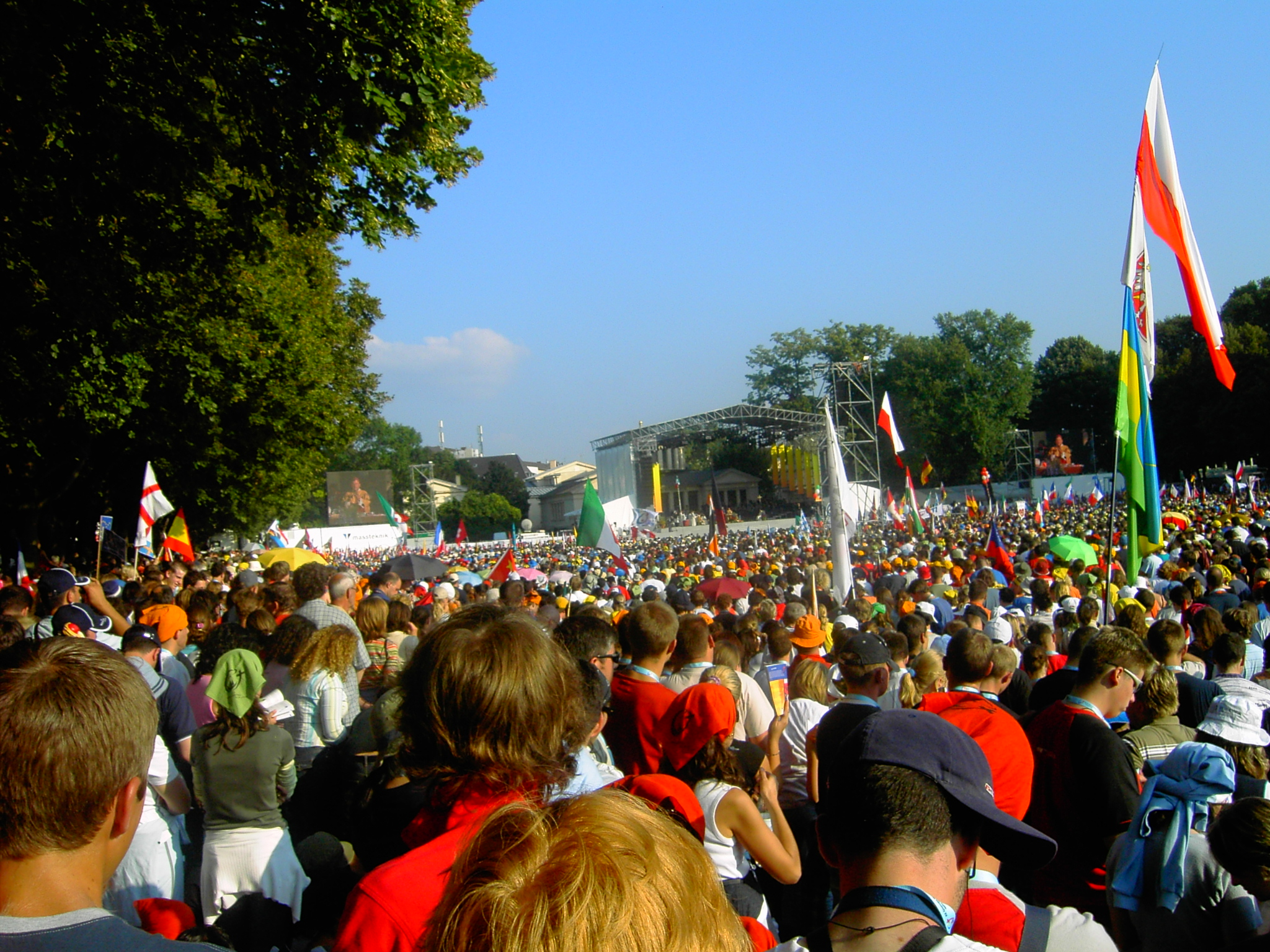 The opening of the WYD 2005 at Bonn, Germany.